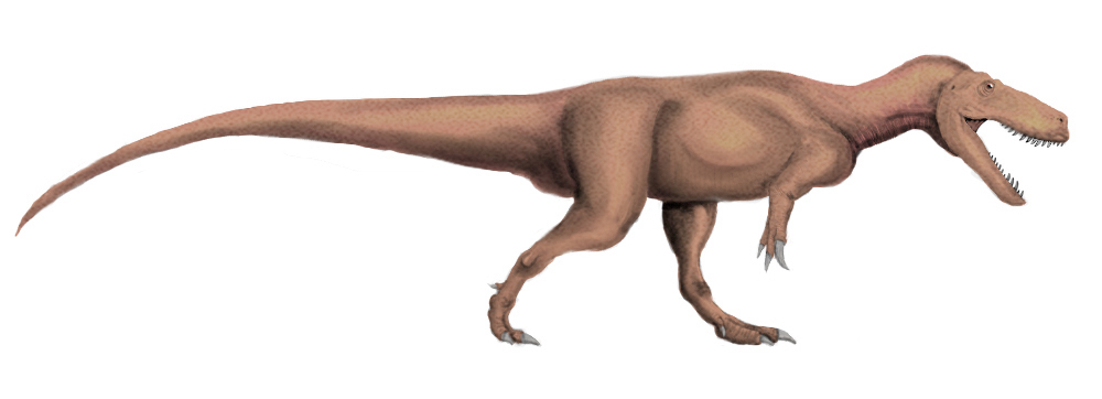 Reconstruction of Wiehenvenator, Das Monster von Minden, as Megalosaur